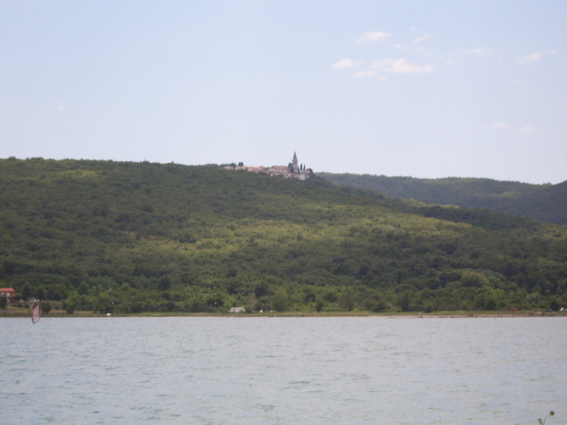 Soline bay on island Krk in Croatia: Dobrinj beneath the bay